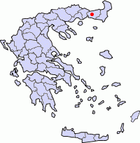 locator map, based on Image:Prefectures Greece grey.png